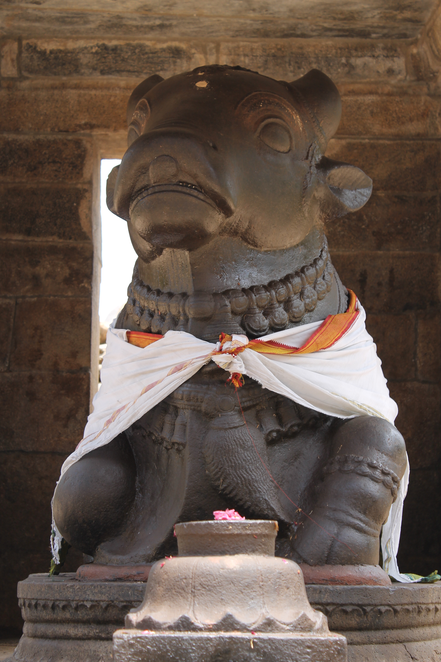 "A beauty of Nandi (Bull) in Airavatesvara Temple".Location: Chatram, Darasuram, near Kumbakonam, Thanjavur District, Tamil Nadu, India.